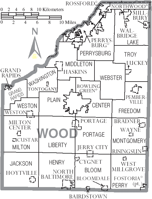 Map of Wood County, Ohio, United States with township and municipal boundaries